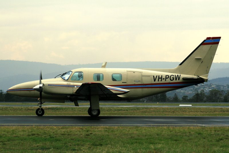 A Piper PA-31P-350 Mojave at Hobart International Airport in Australia. Sadly, this aircraft has since crashed on 15th June 2010 when it sustained an engine failure near Bankstown Airport, Sydney, and contacted power lines and a nearby school. Digital photo of VH-PGW taken by YSSYguy on 3 April 2009 and uploaded for use in the Piper PA-31 Navajo article. Image edited with Picasa software.